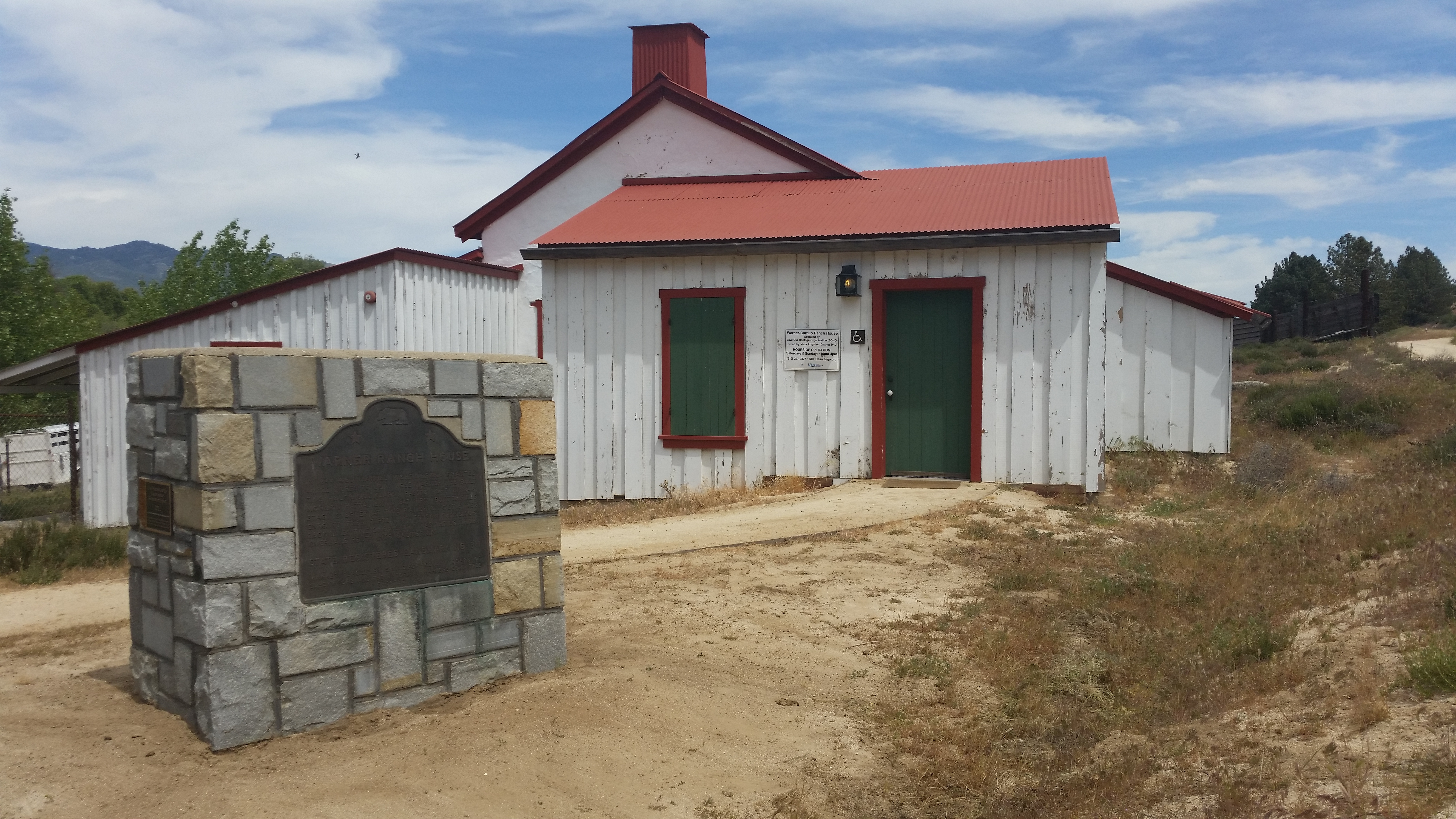 Historical marker and northwest side of the Carillo Adobe structure